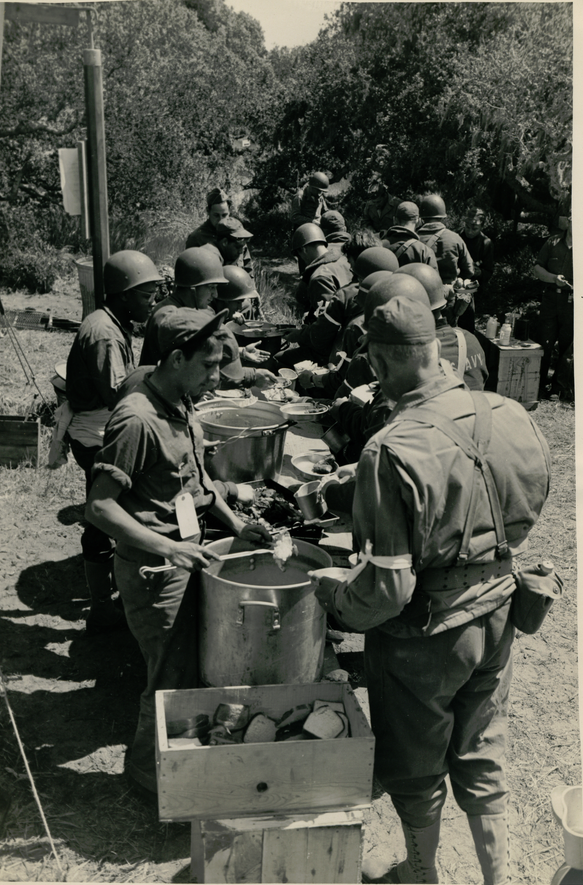 Civil Affairs Staging Area (CASA) soldiers prepare to enjoy a meal in the field at the Presidio of Monterey.